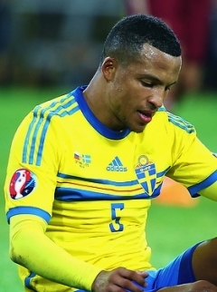 Martin Olsson